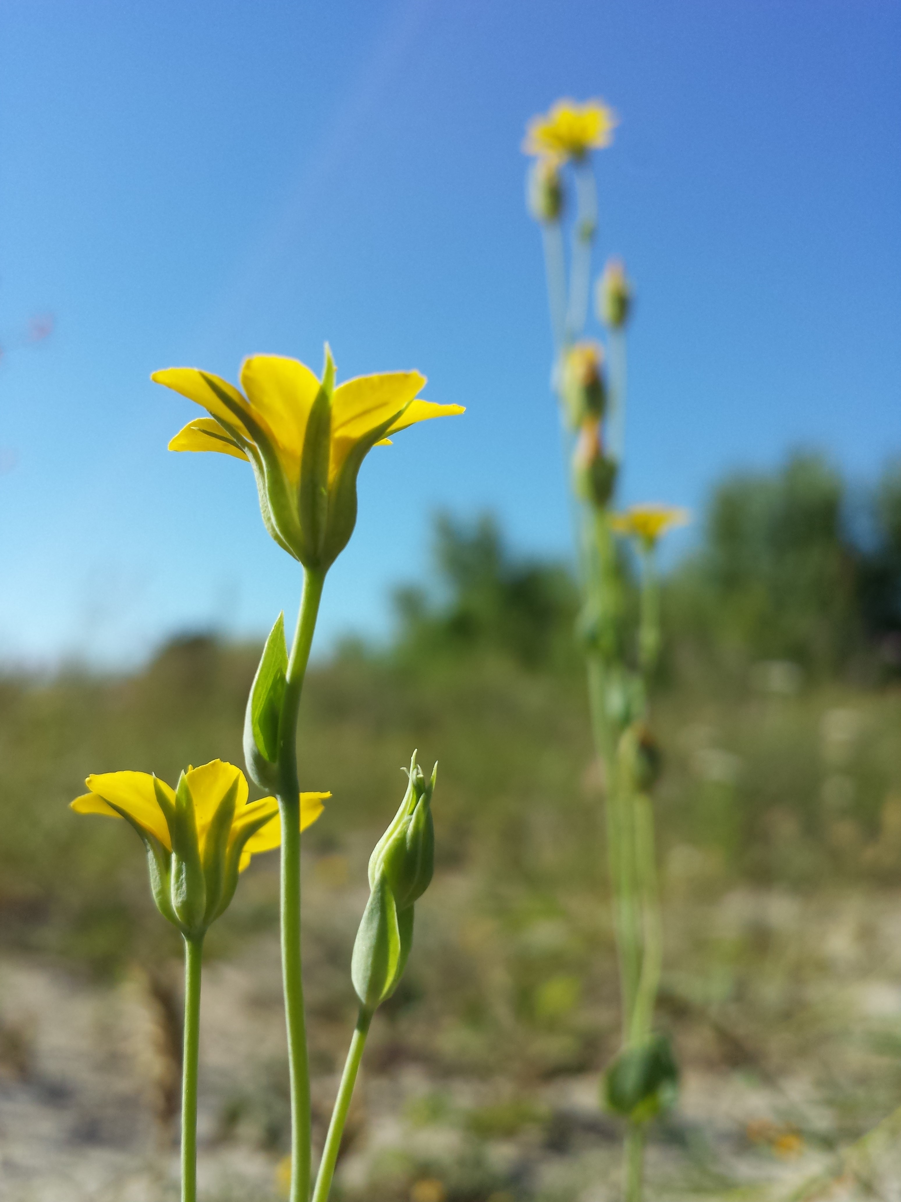 Florescence Taxon: Blackstonia acuminata (sensu Fischer et al. EfÖLS 2008) Location: old marshalling yard Breitenlee, Vienna-Donaustadt - ca. 160 m a.s.l. Habitat: dry grassland